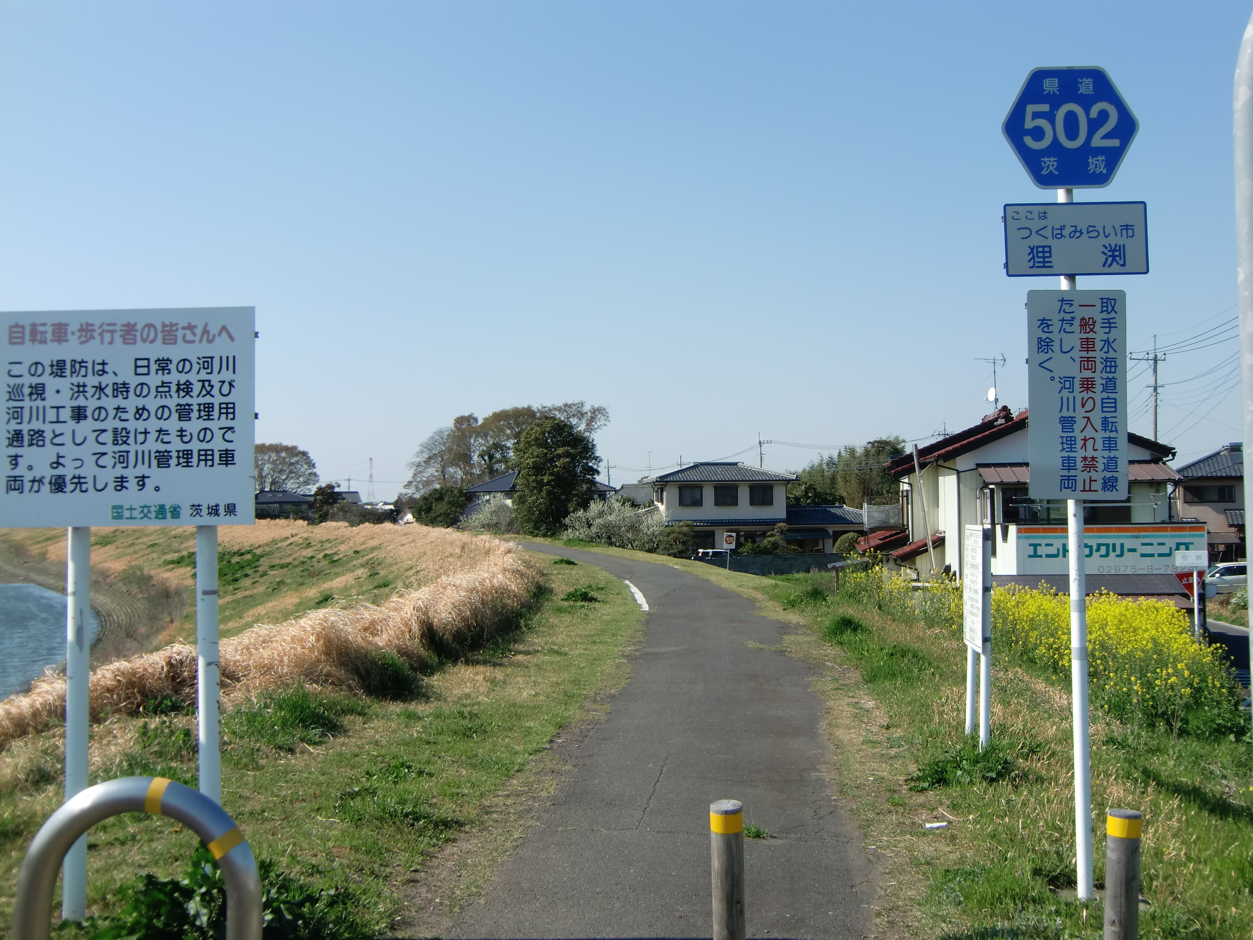 Ibaraki prefectural road 502 (Toride-Jōsō bicycle line) in Mujinabuchi, Tsukubamirai-city, Ibaraki, Japan.